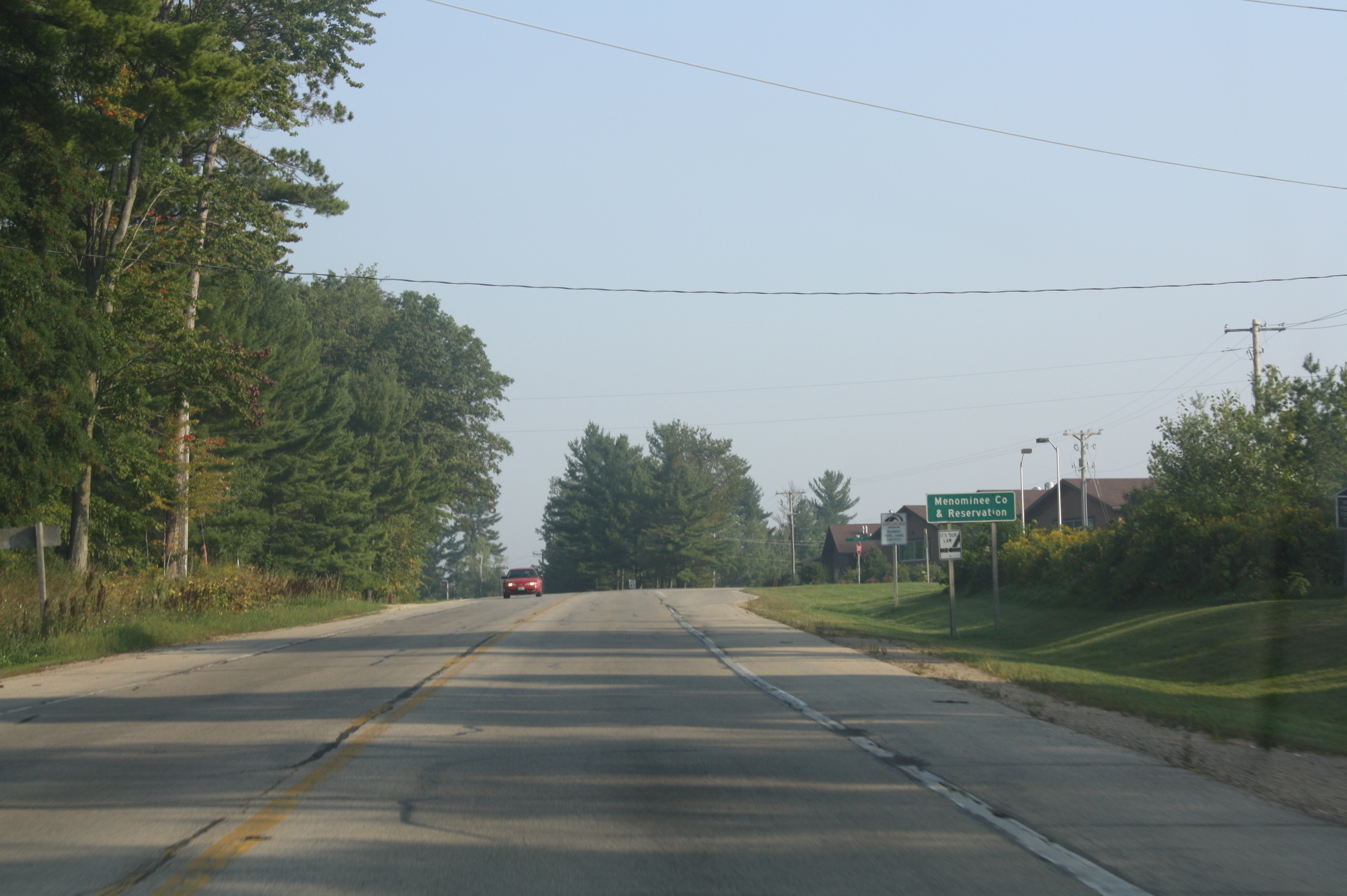 Looking north at the county and reservation entrance sign for Menominee County, Wisconsin on Wisconsin Highway 55.